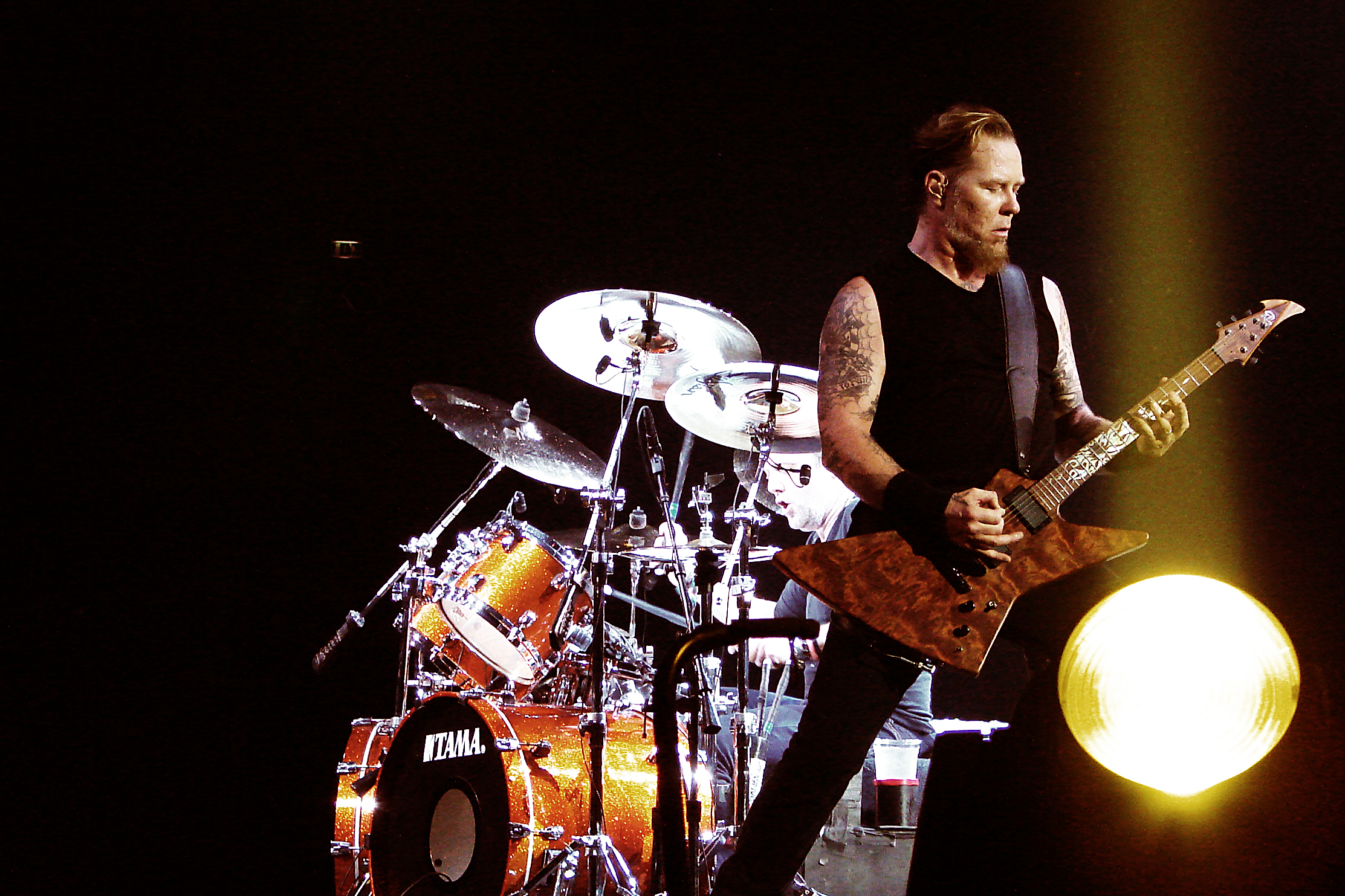 Metallica performing live "Of Wolf and Man" at 02 Arena, London, 15 September 2008